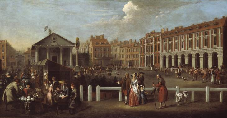 Covent Garden piazza and market in 1737, looking west towards St Paul's Church